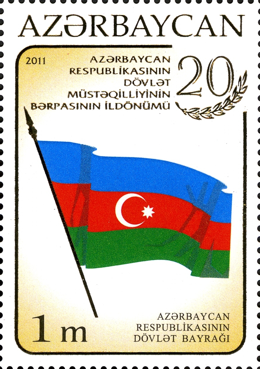 The 20th. Anniversary of the Restoration of State Independence of the Republic of Azerbaijan.